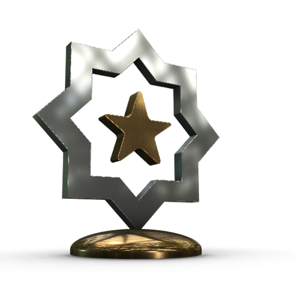 Arab Best Award Trophe icon